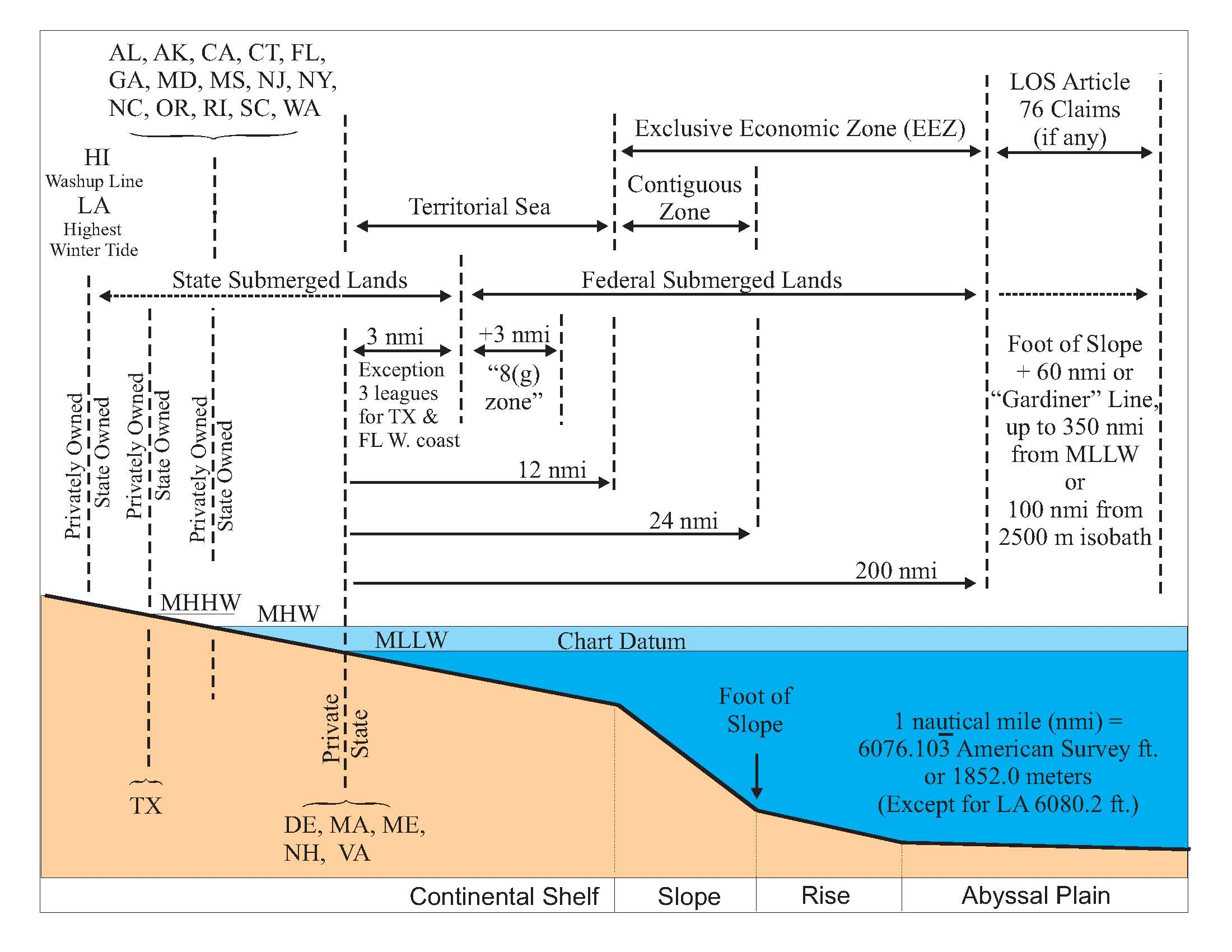 Diagram showing extent of US state and federal ownership of submerged lands